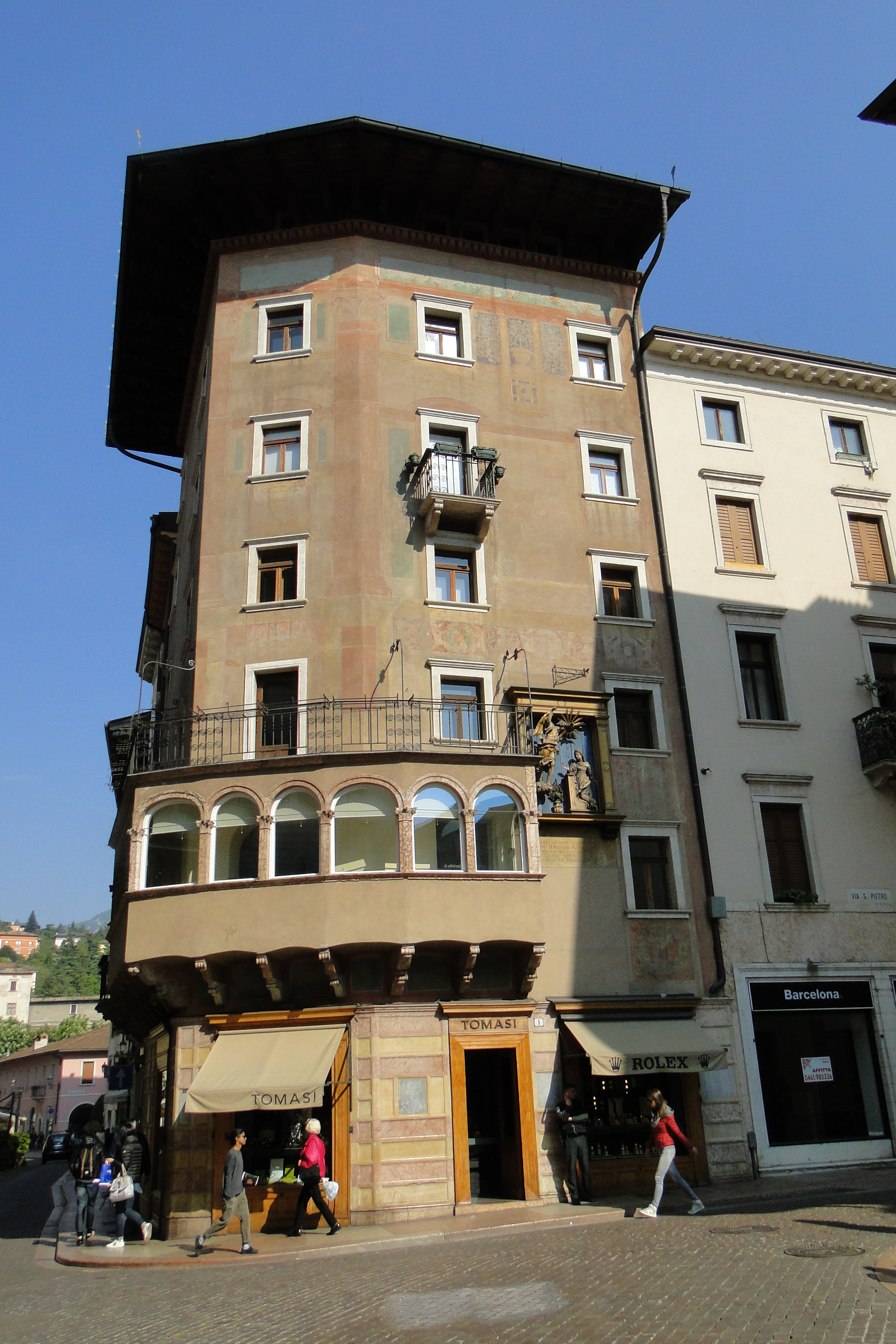 Zabini House in the "Canton" (Trento, Italy)